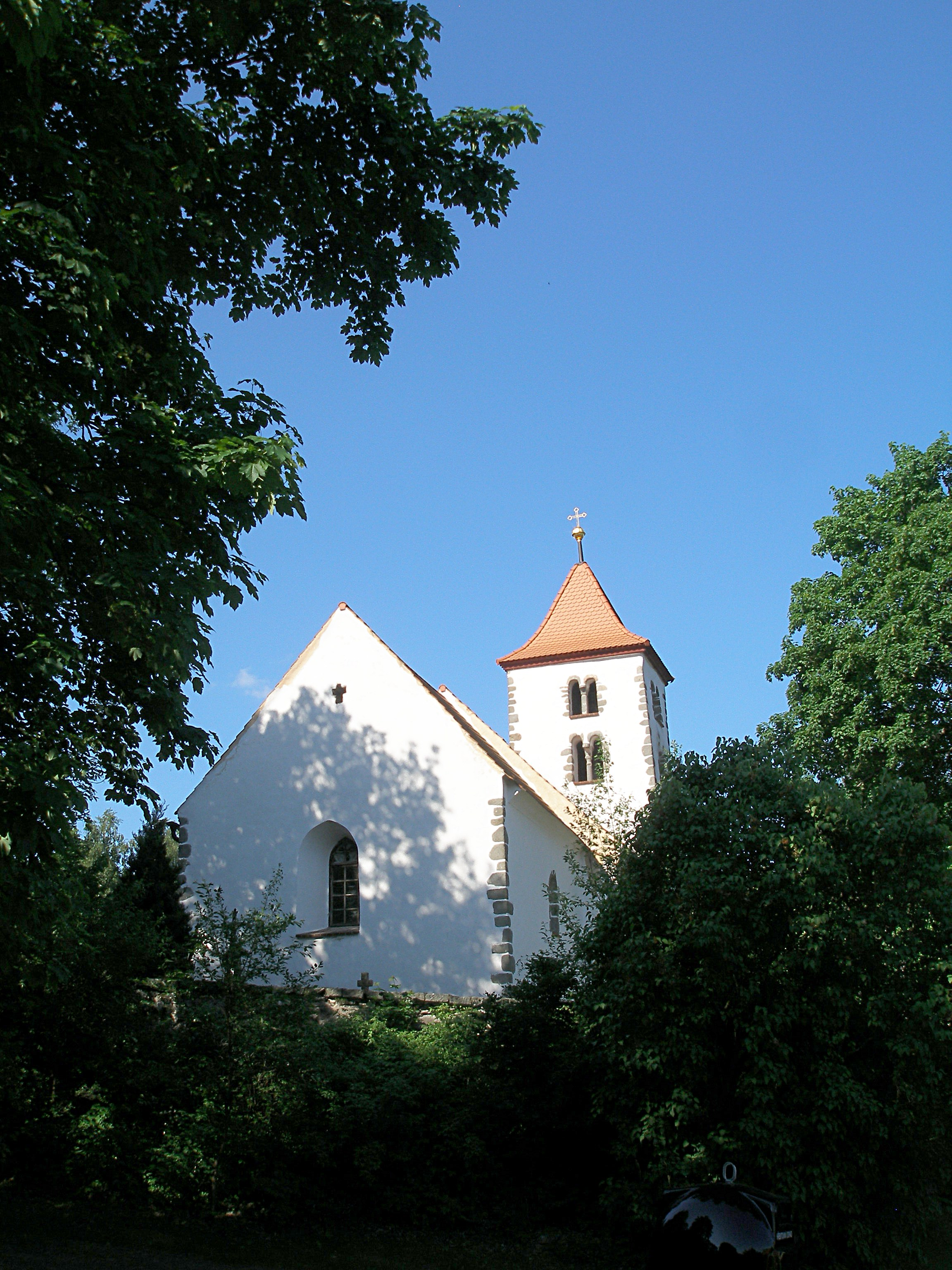 Újezdec - the eastern view of the Saint Ursula church